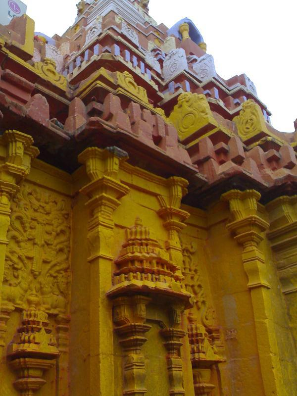 Savadatti Renuka temple Author and Source : Manjunath Doddamani, Gajendragad, Karnataka (North), India